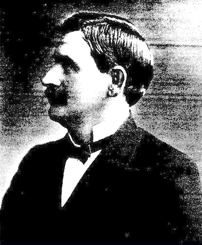 Timothy E. Tarsney, US Representative from Michigan